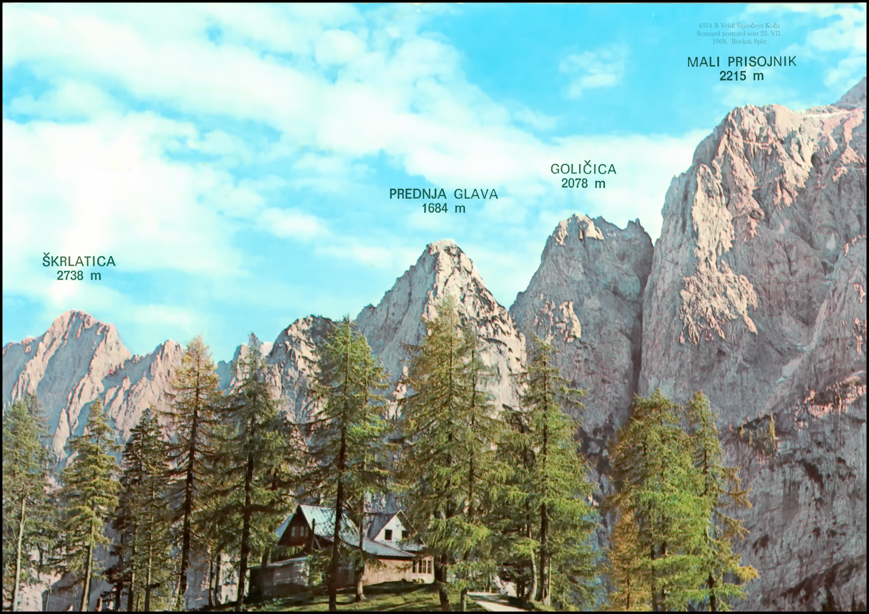 Postcard of Vršič.